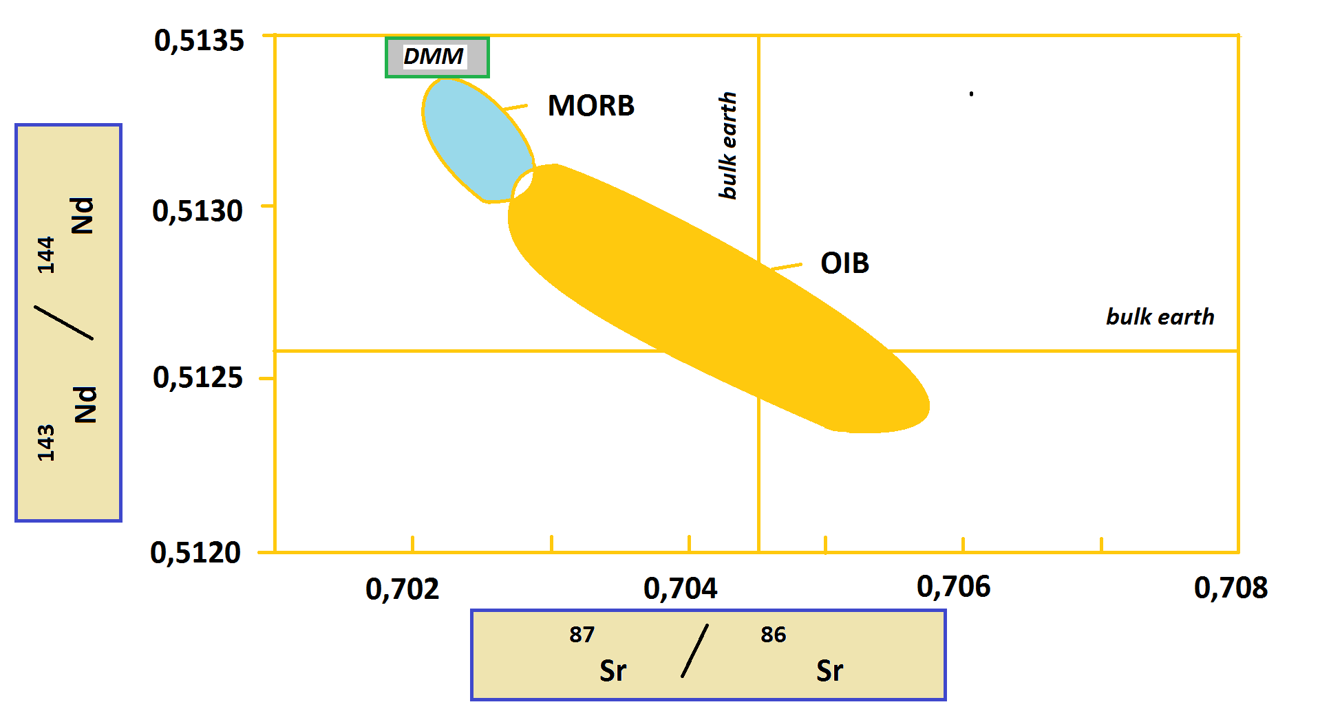 Nd-Sr isotope diagram showing the position of DMM, MORB and OIB. Redrawn and modified from Marjorie Wilson's book Igneous Petrogenesis.